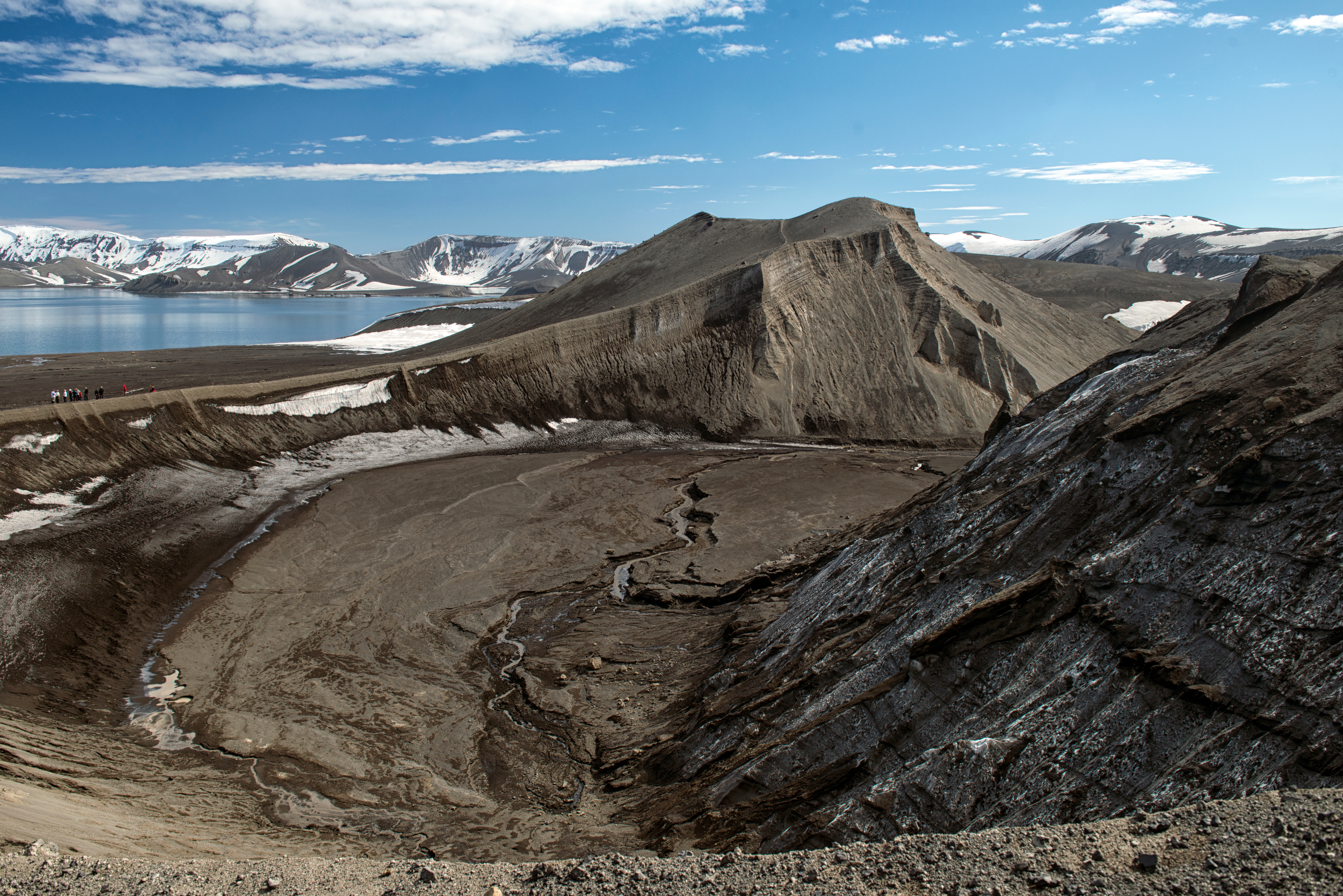 Deception Island is an island in South Shetland off the Antarctic Peninsula that has one of the safest harbours in Antarctica. The island is the caldera of an active volcano, which caused serious damage to the local scientific stations in 1967 and 1969.